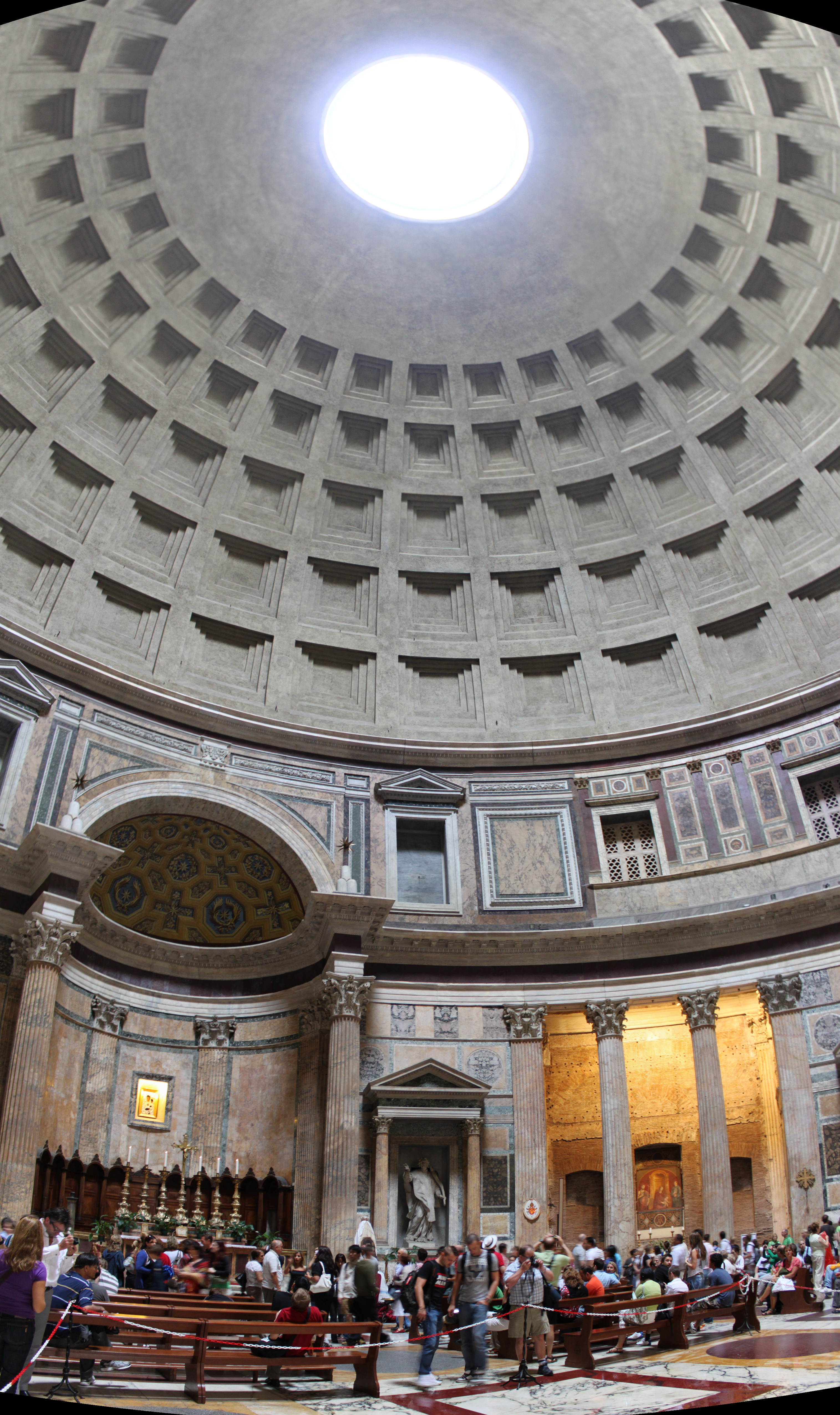 Rome's Pantheom